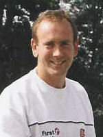 Mark IlottMark Ilott at his Benefit Match at Upminster, see here